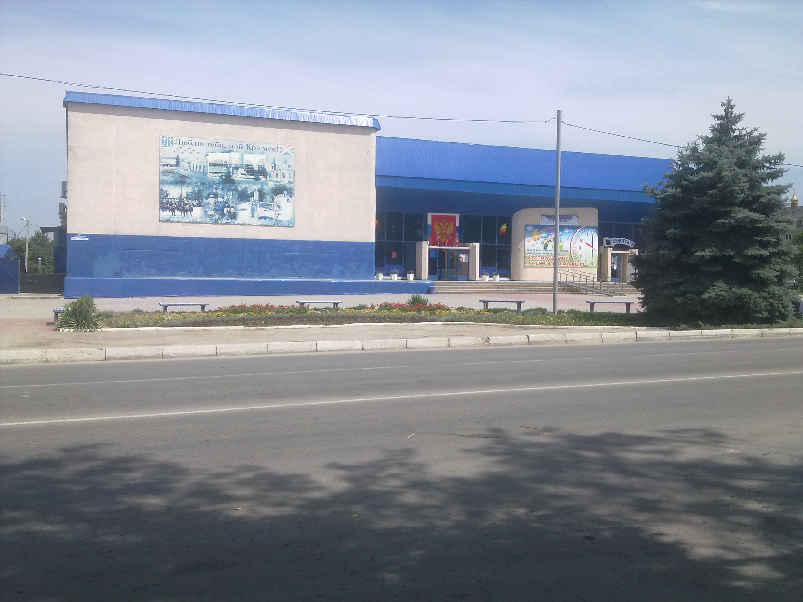 Cinema "Russ"